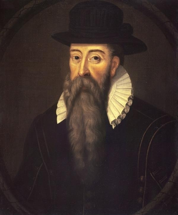 John Erskine, 17th Earl of Mar (d. 1572)